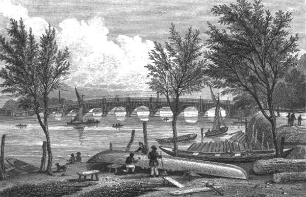 View from Mill Bank, London: Vauxhall Bridge spans the River Thames, on which bank a group of men is building boats